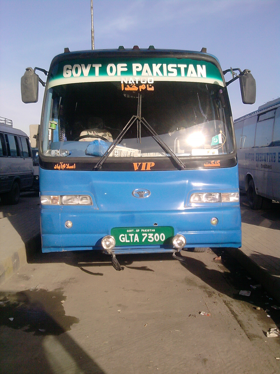 Photo of NATCO (Northern Areas Transport Corporation) bus at Peerwadahi bus stop, Pakistan. Natco bus service from Islamabad to Gilgit.